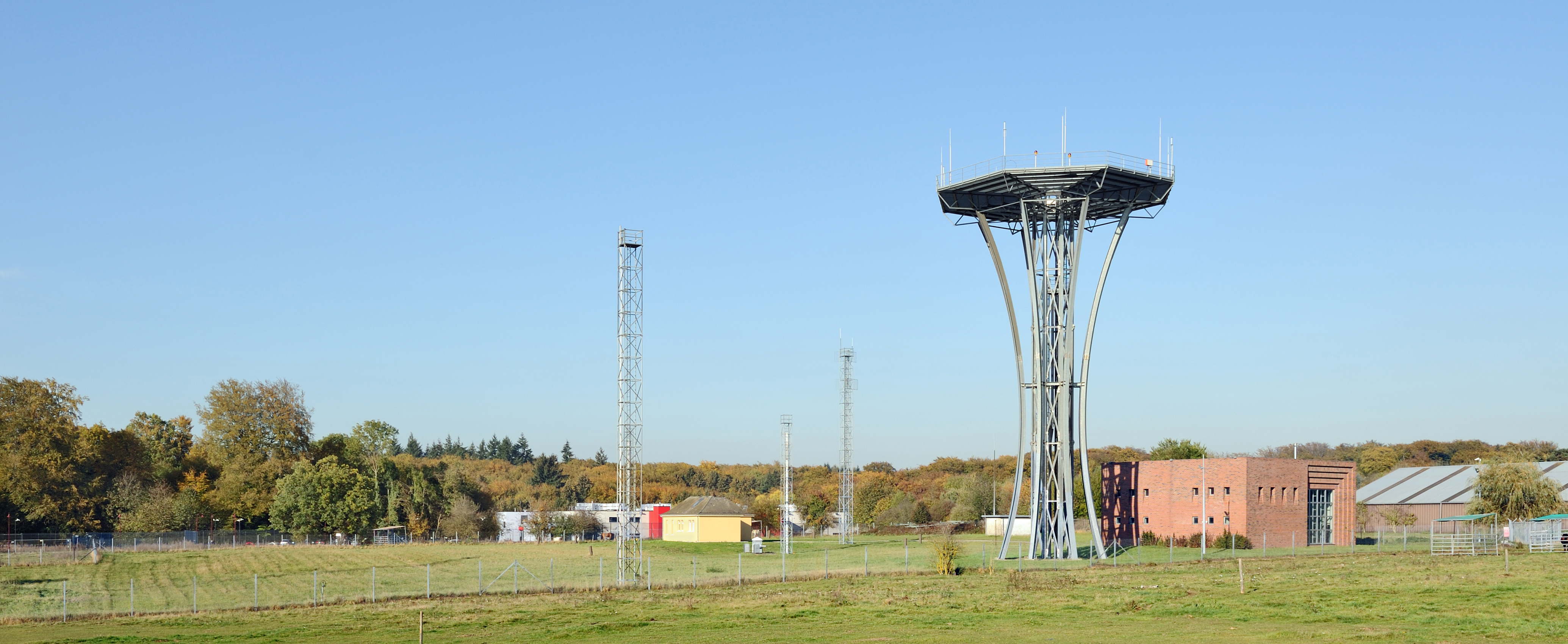 Luxembourg, Findel: airport structure and the national Immigration detention centre (Centre de rétention) in the left background).